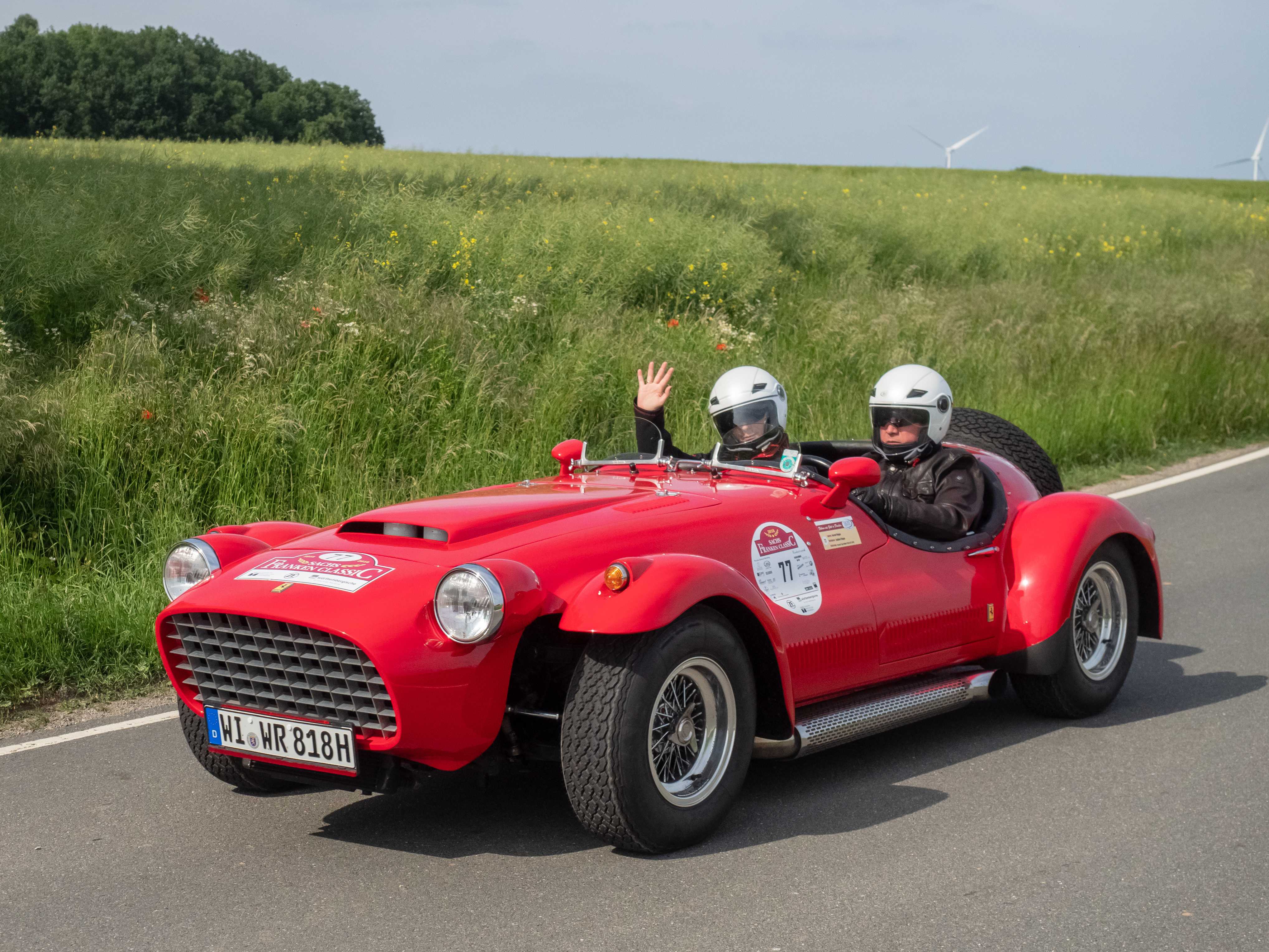 Ferrari Typ Felber 330 GTC at the Sachs Franken Classic 2018 Rally, Stage 1